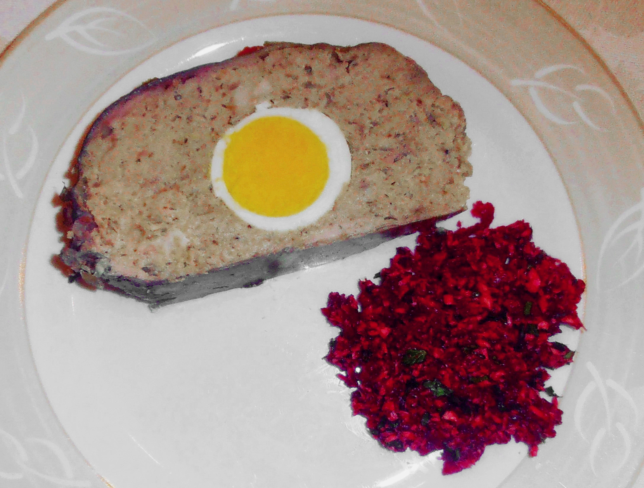 gefilte fish - whole stuffed fisch - a slice of the whole stuffed fish with red khren (horseradish with beetroot)